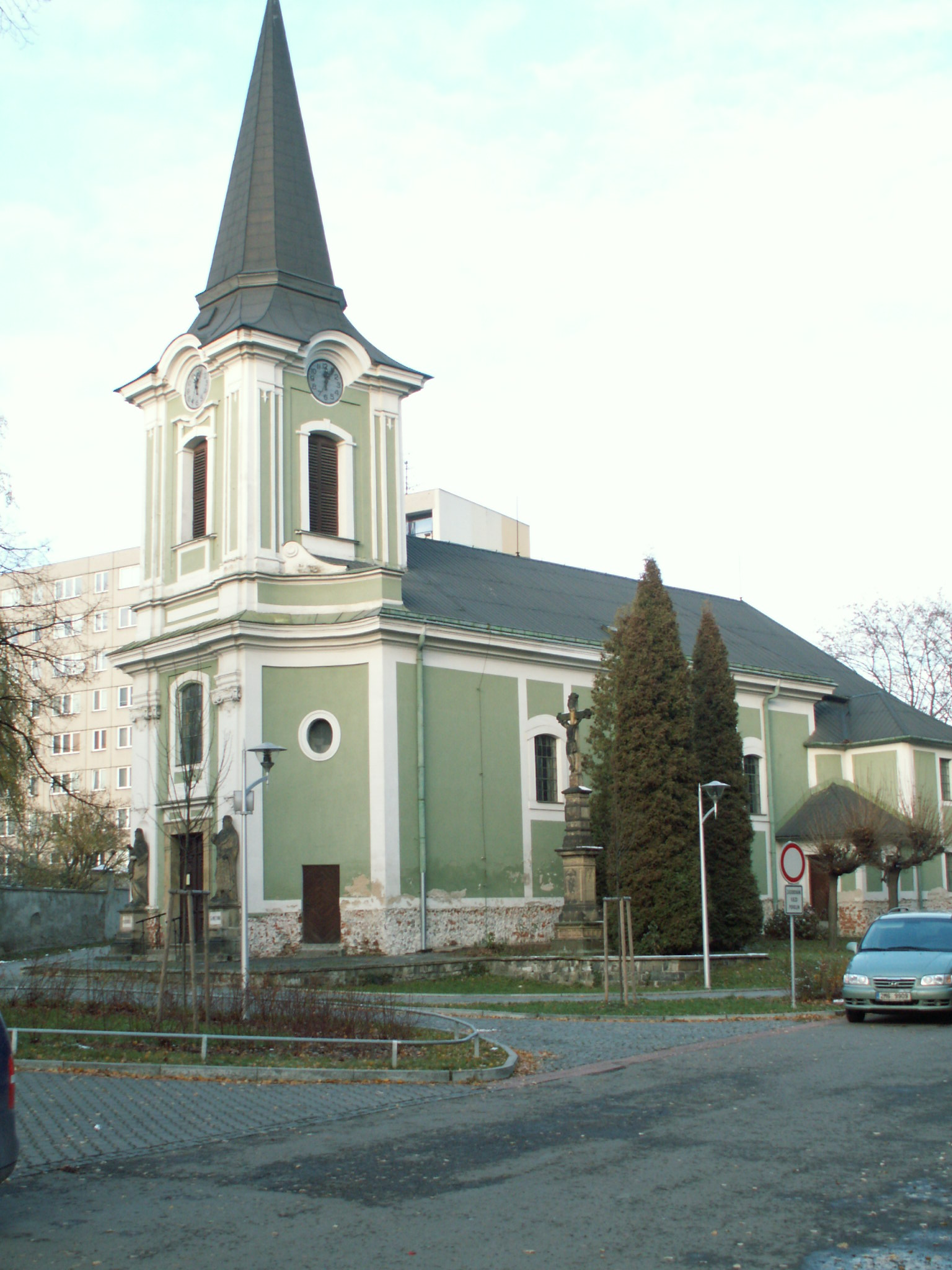 Church of St. Mary Magdalene in Předmostí by Přerov, Czech Republic